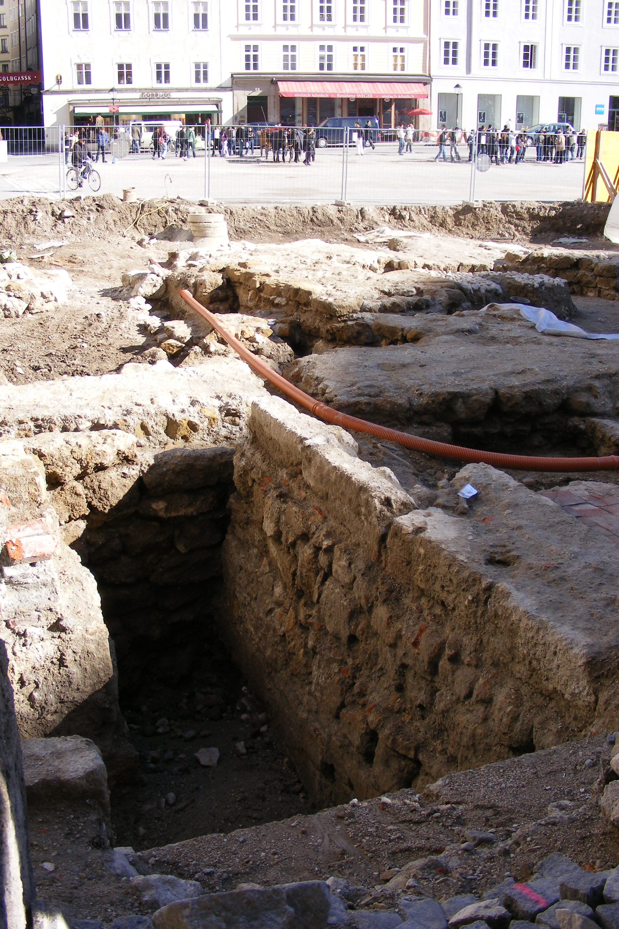 Iuvavum roman walls below Residenzplatz Salzburg.jpg